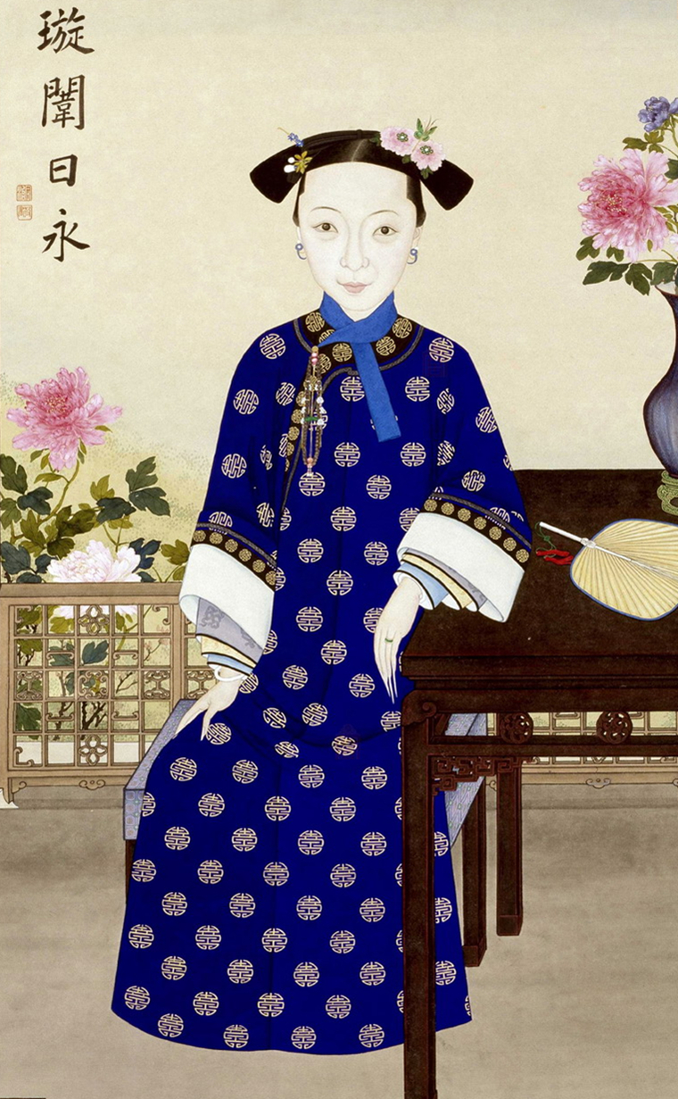 Empress Dowager Ci'an of China